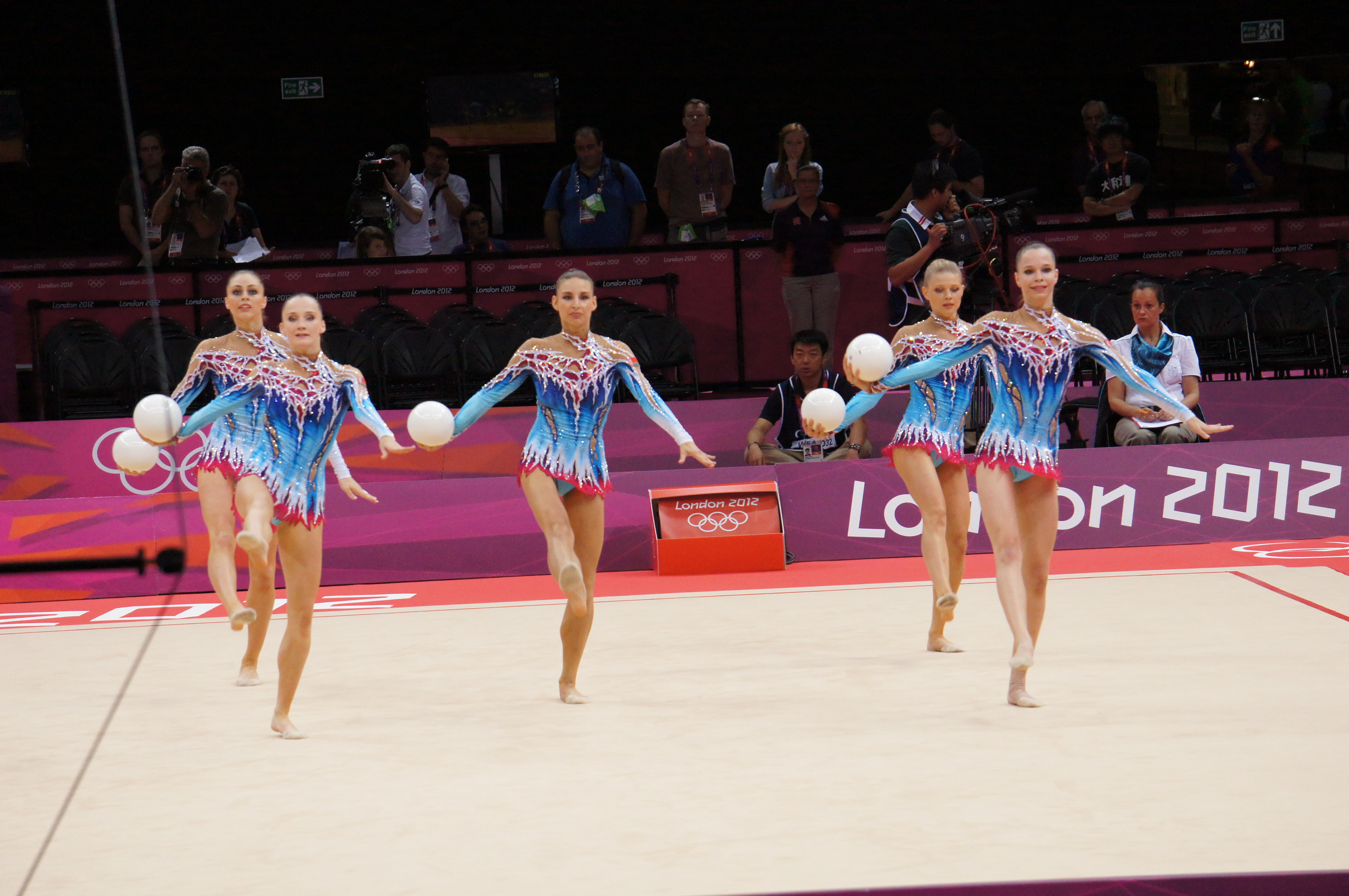 Rhythmic Gymnastics at the Olympic Games in London 2012.